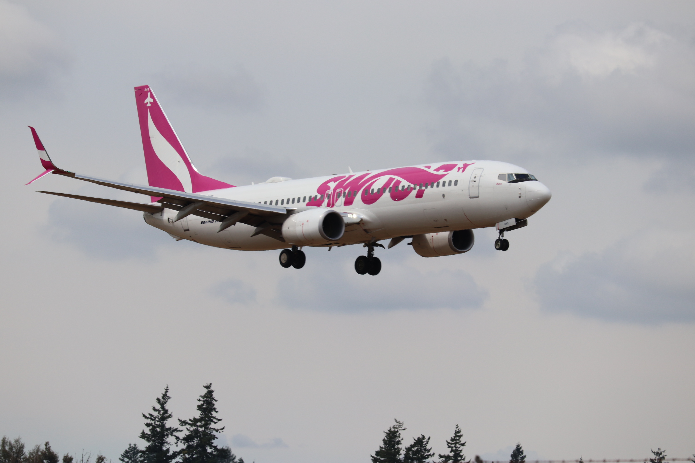 Swoop Airline Landing at Abbotsford International Airport during Abbotsford Air Show 2019